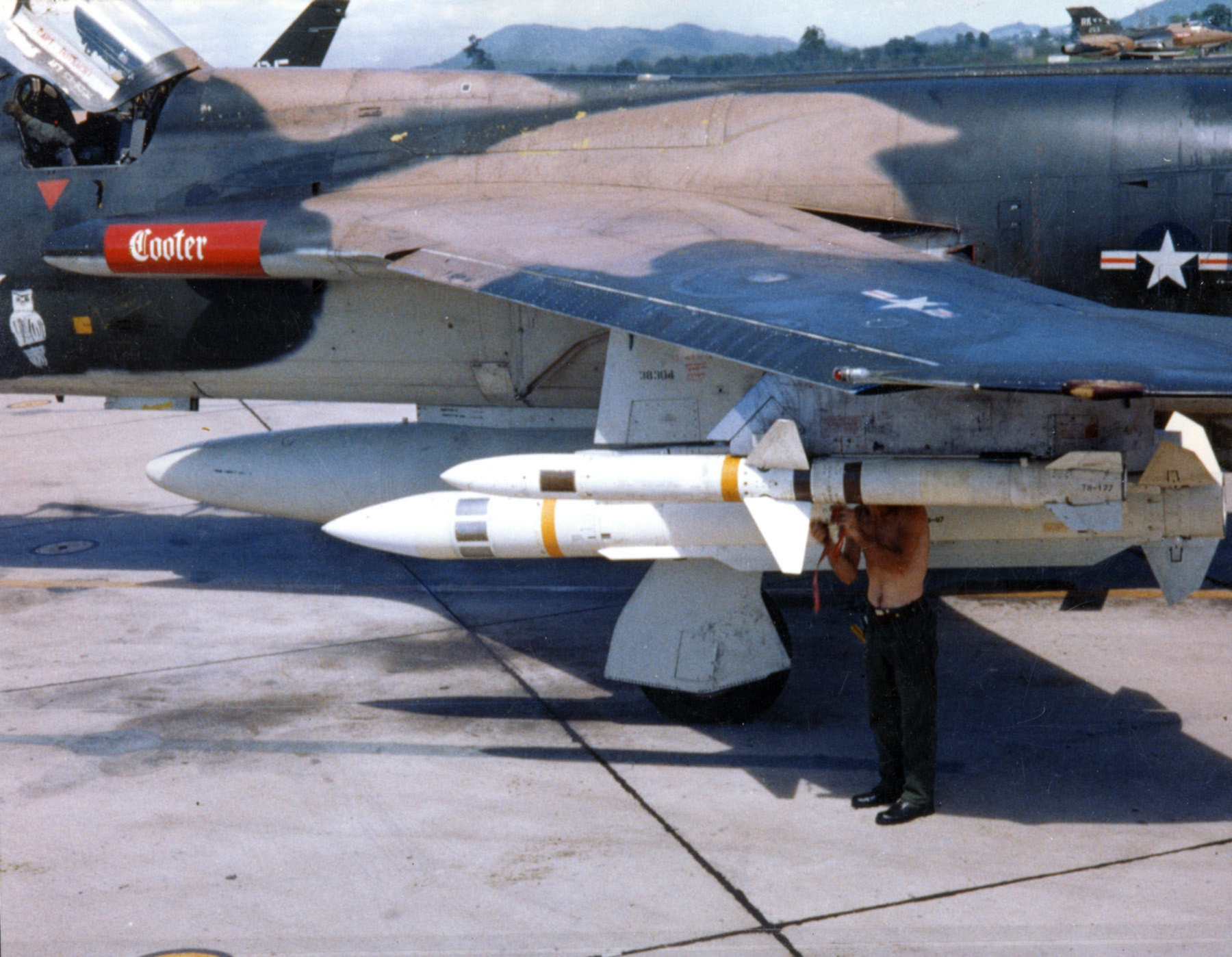 AGM-45 Shrike and AGM-78 Standard ARM anti-radiation missiles below the wing of the U.S. Air Force Republic F-105F Thunderchief (s/n 63-8320) of the 388th Tactical Fighter Wing at Takhli Royal Thai Air Force Base in the late 1960s. This aircraft was later converted to an F-105G and is today on display at the National Museum of the United States Air Force.